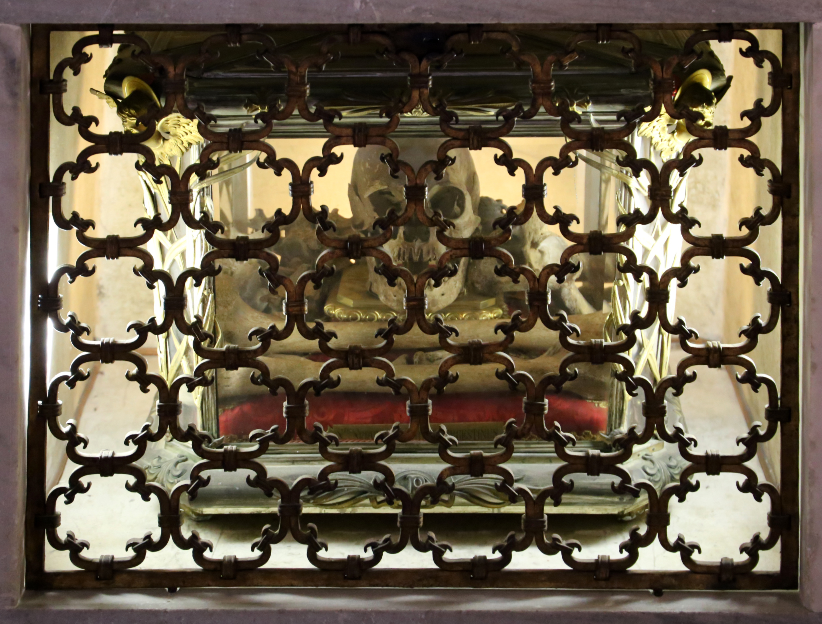 Cathedral (Trieste) - Interior